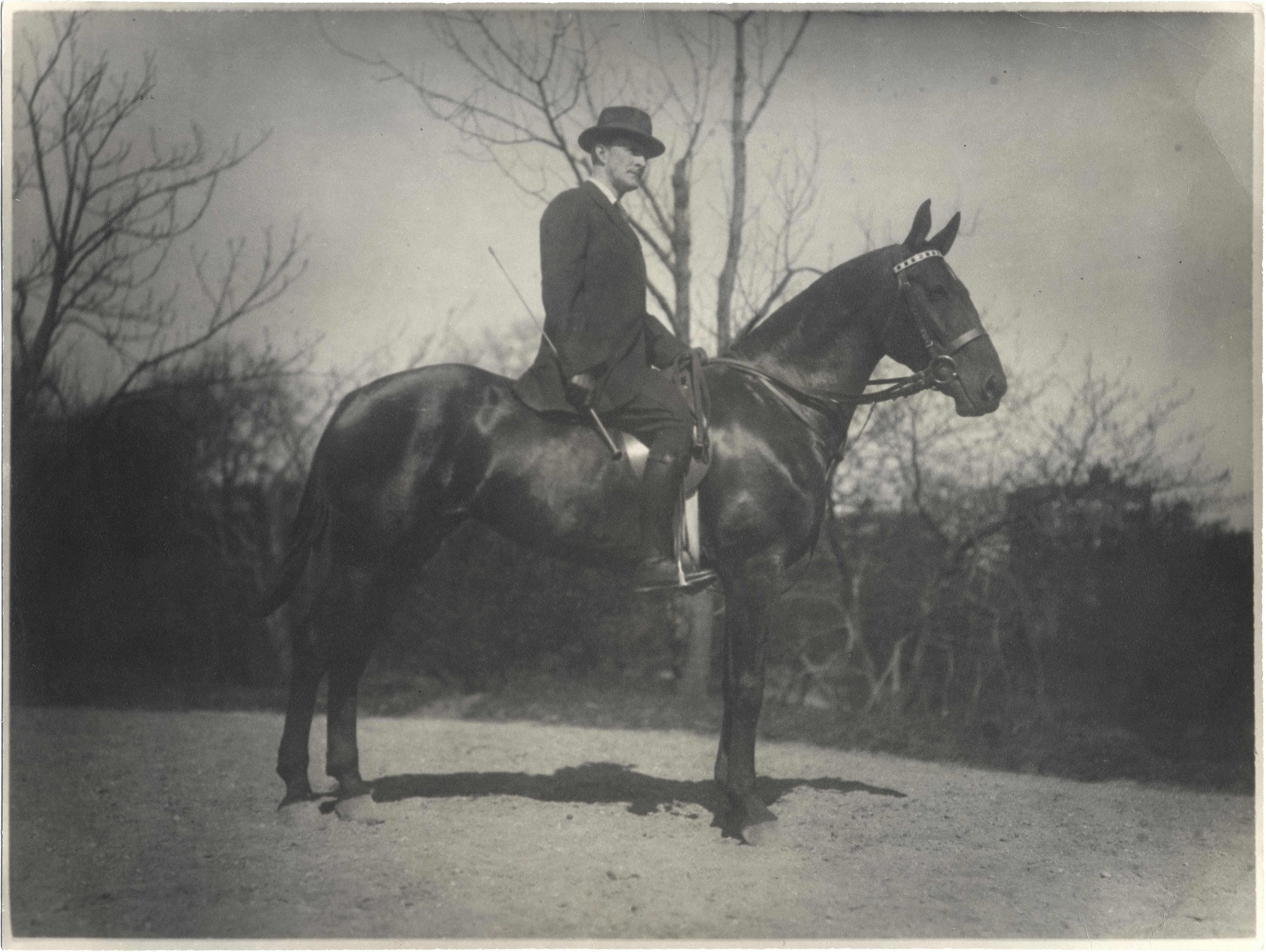 Quinn astride a horse.